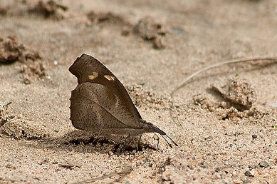 By Dhaval Momaya. Shot in Silent Valley National Park, Kerala.